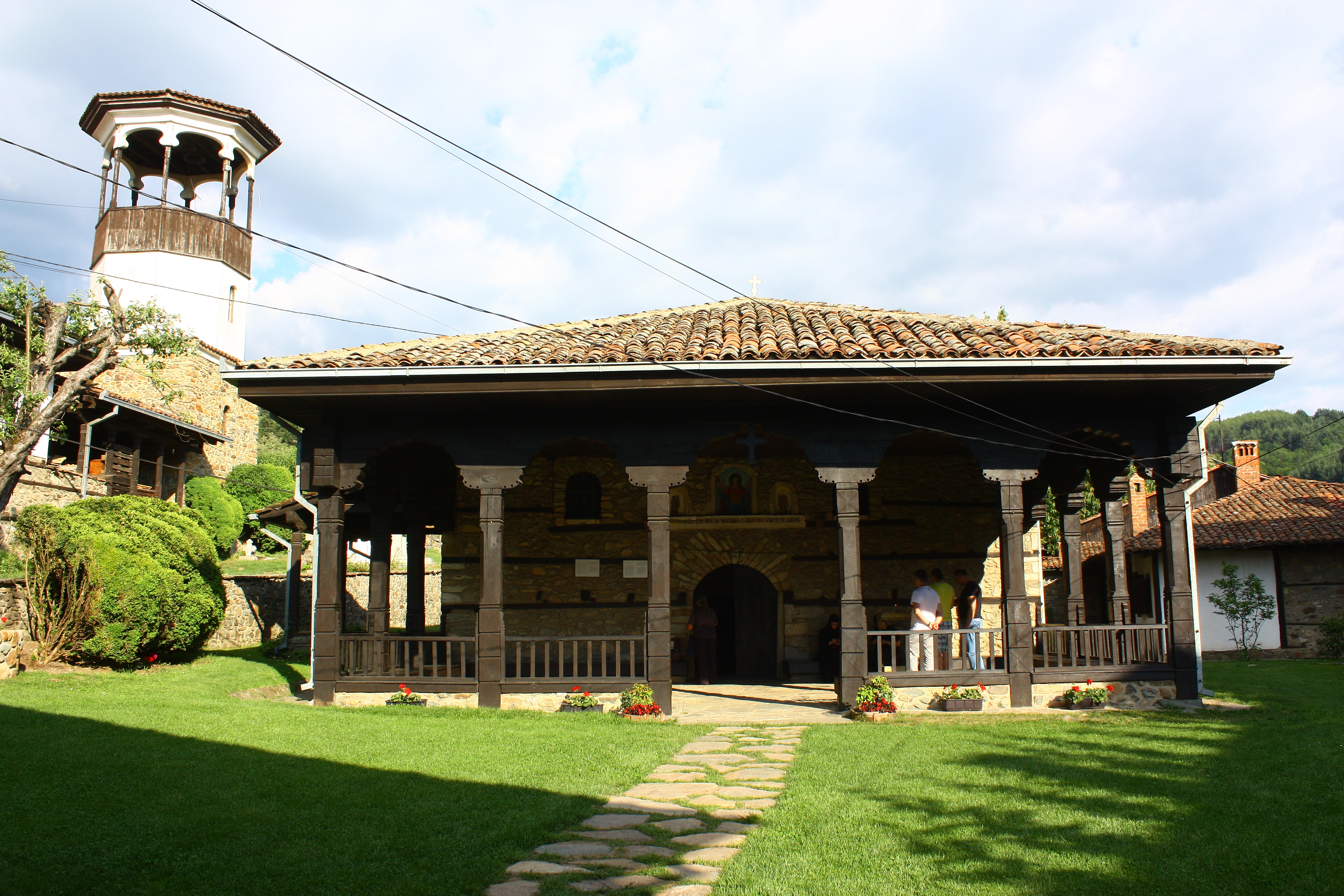 St. Michael the Archangel Church in Berovo, Macedonia